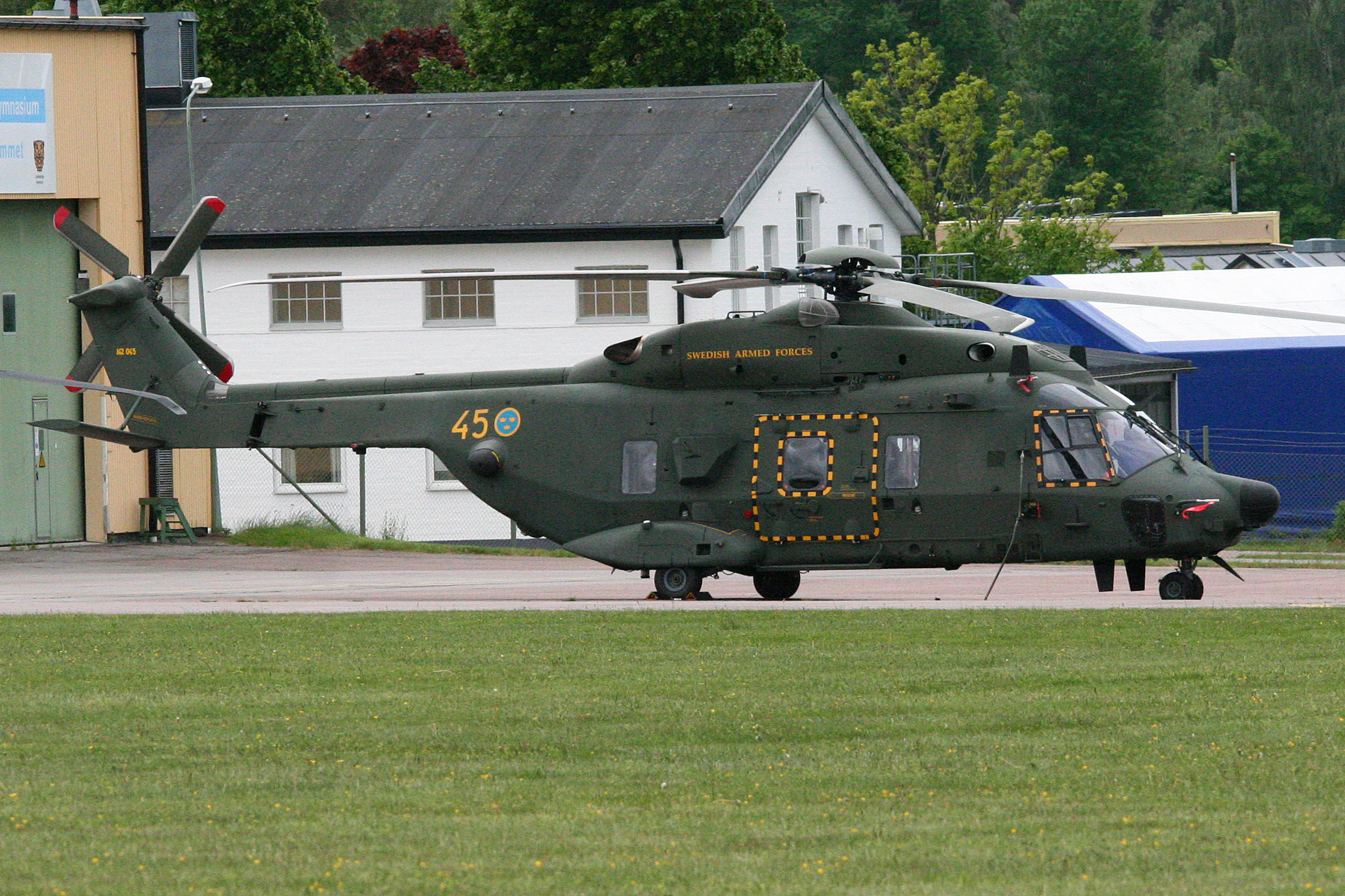 Based at Malmen with 2Hkpskv. msn 1048, l/n BSWA05. Parked on a Southside ramp waiting for its part in the afternoons tactical demo. 2012 Malmen Airshow, Sweden. 03-06-2012